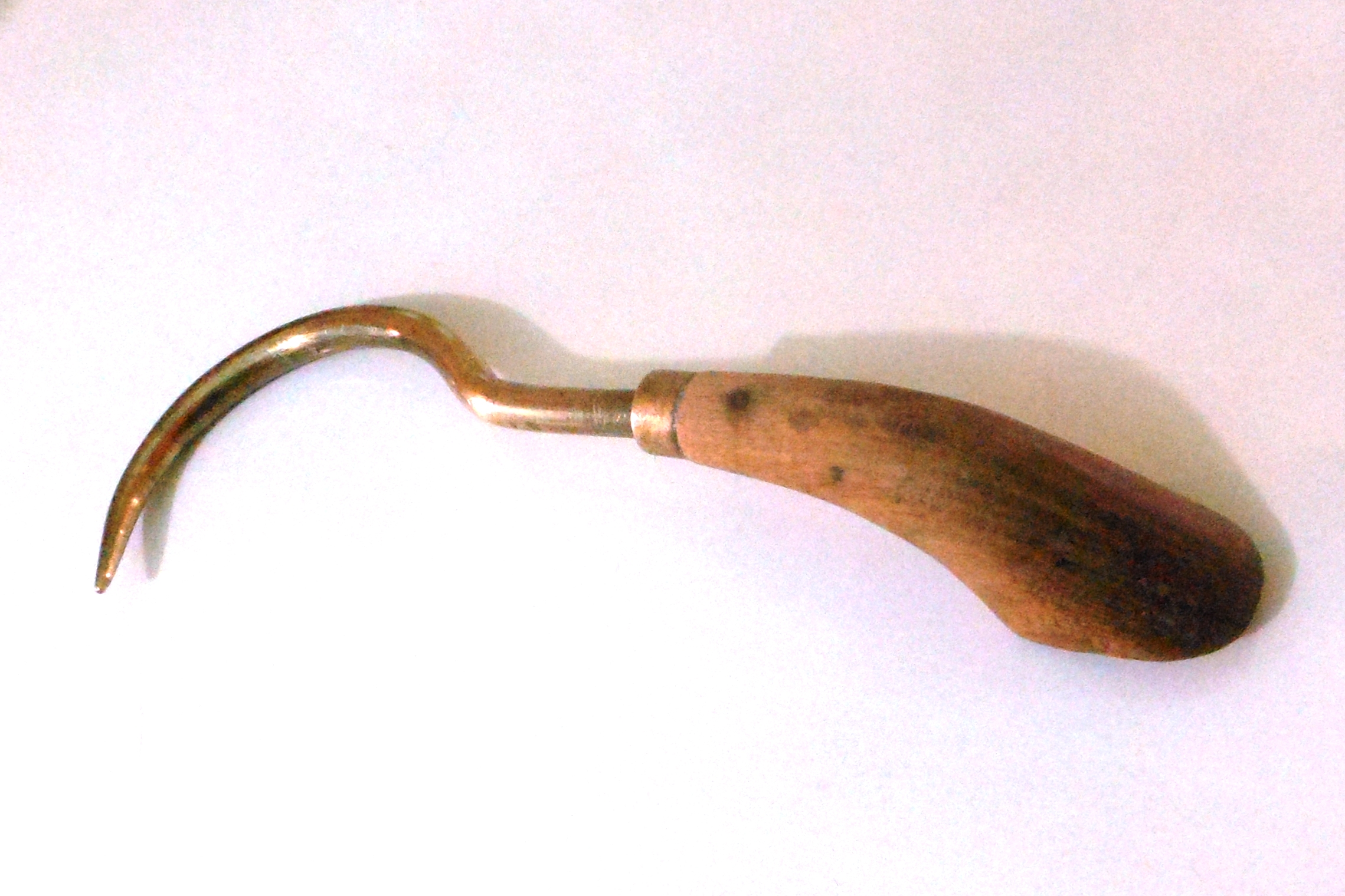 famer hook thai